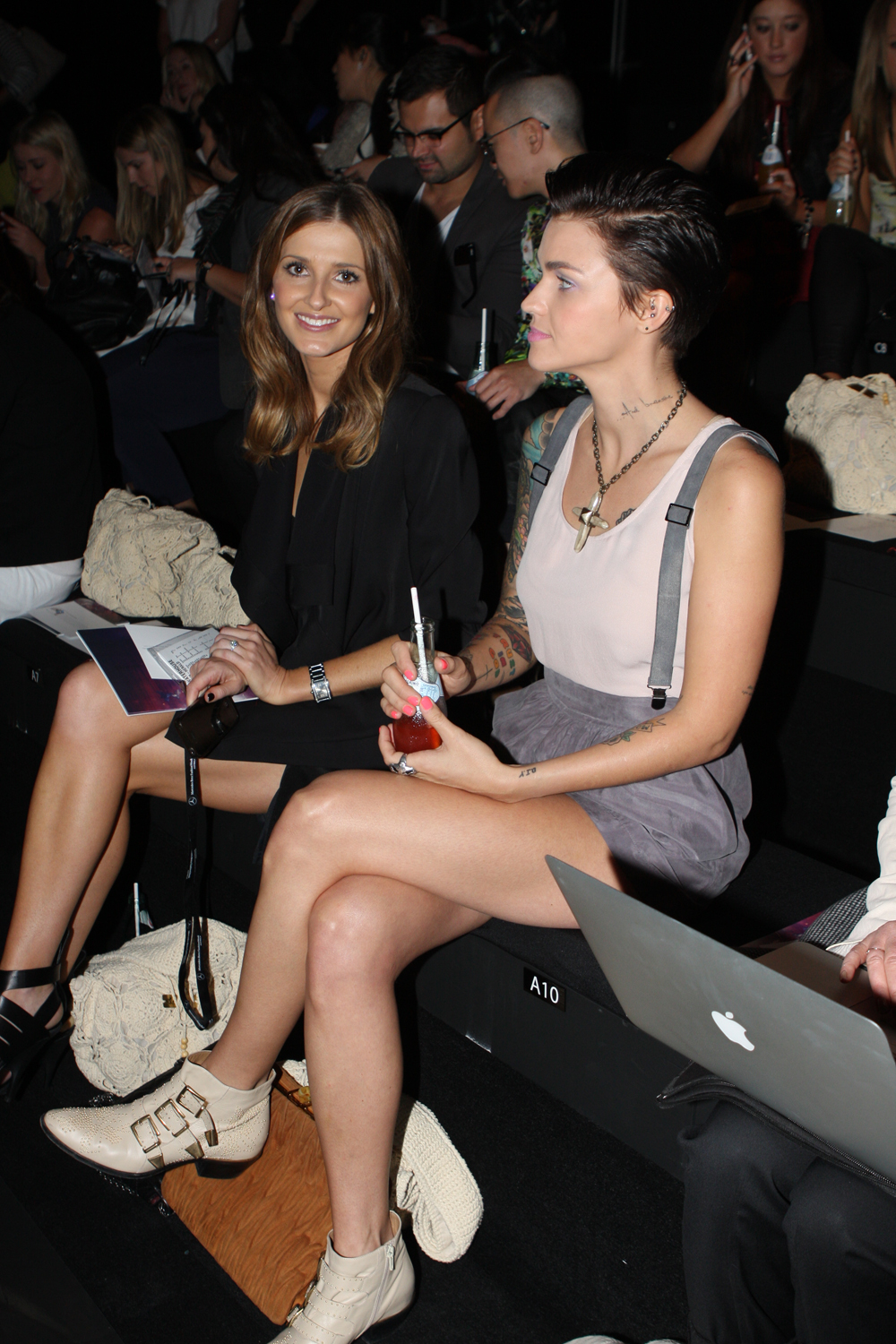 Mercedes-Benz Fashion Week; Cruise Bar hosts famous fashion event; MBFWA business wheels in motion